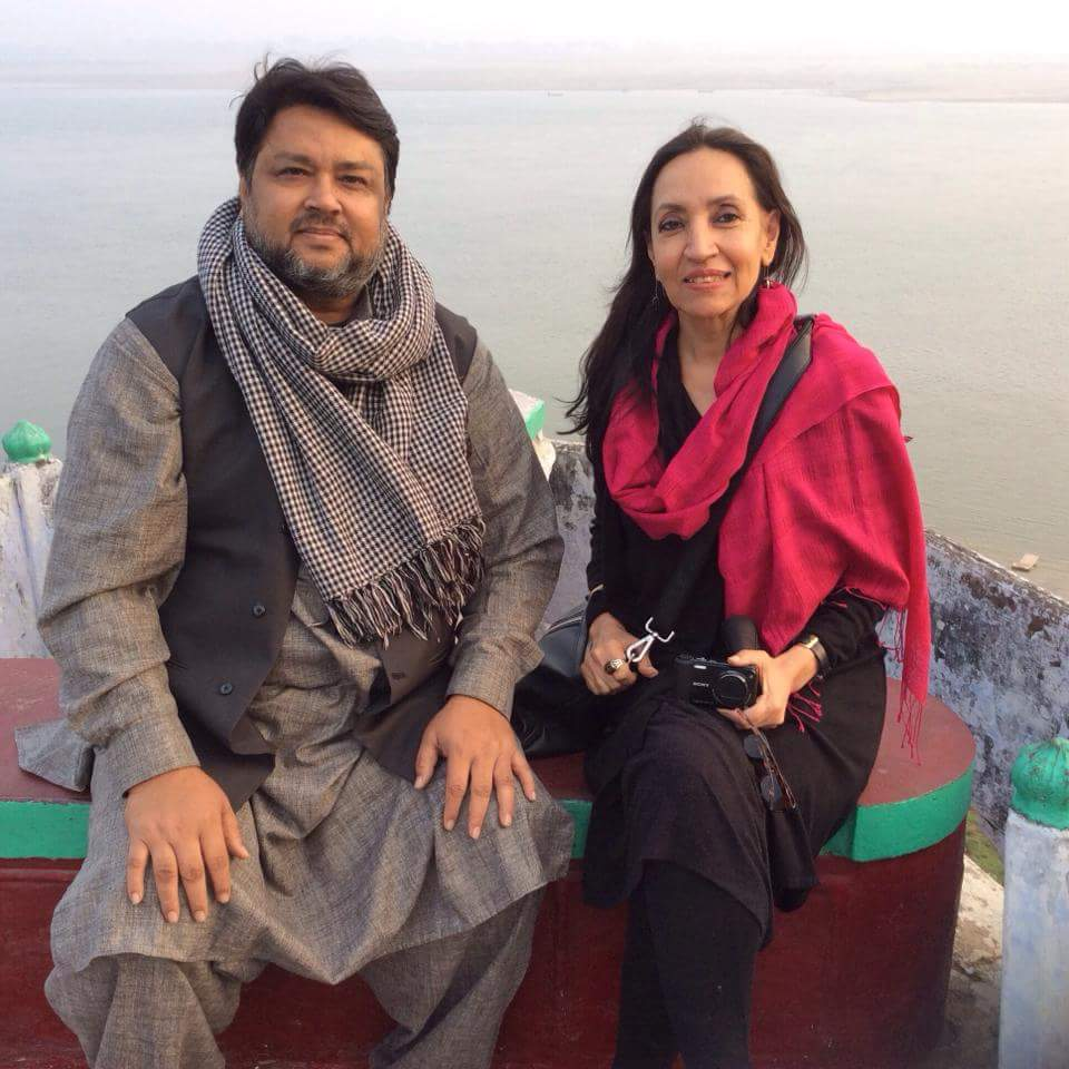 Obaidur Rahman Siddiqui with Professor Smita Tewari Jassal